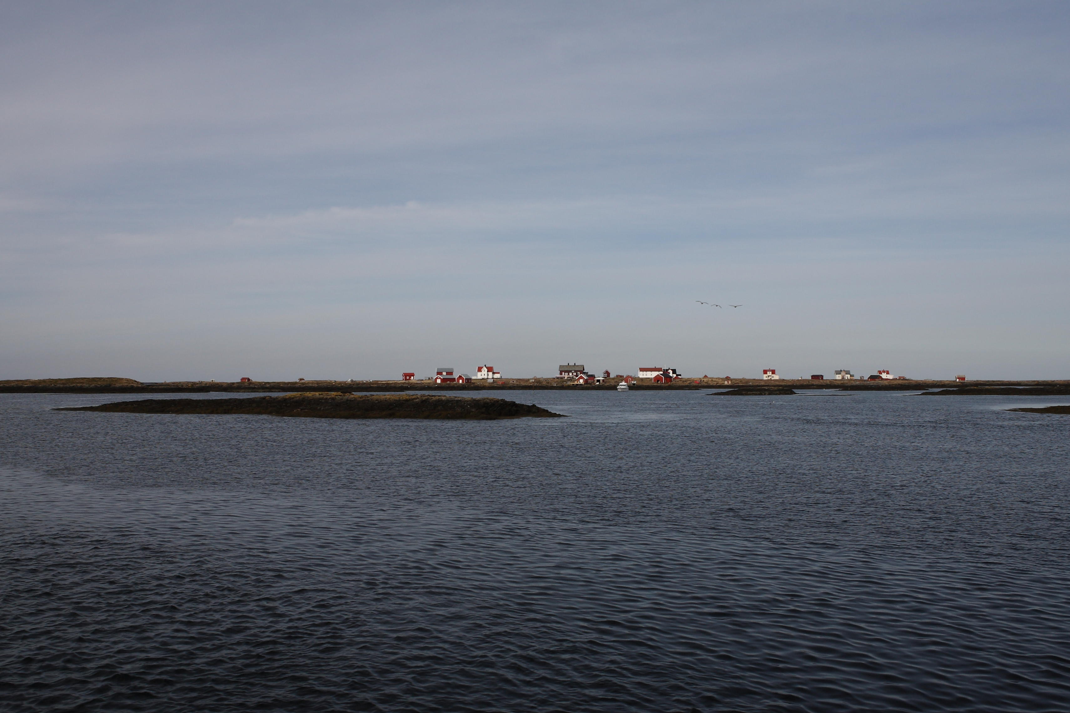 The island Lånan in Vega, NorwayNorsk bokmål: Fiskeværet Lånan i Vega kommune, Nordland.